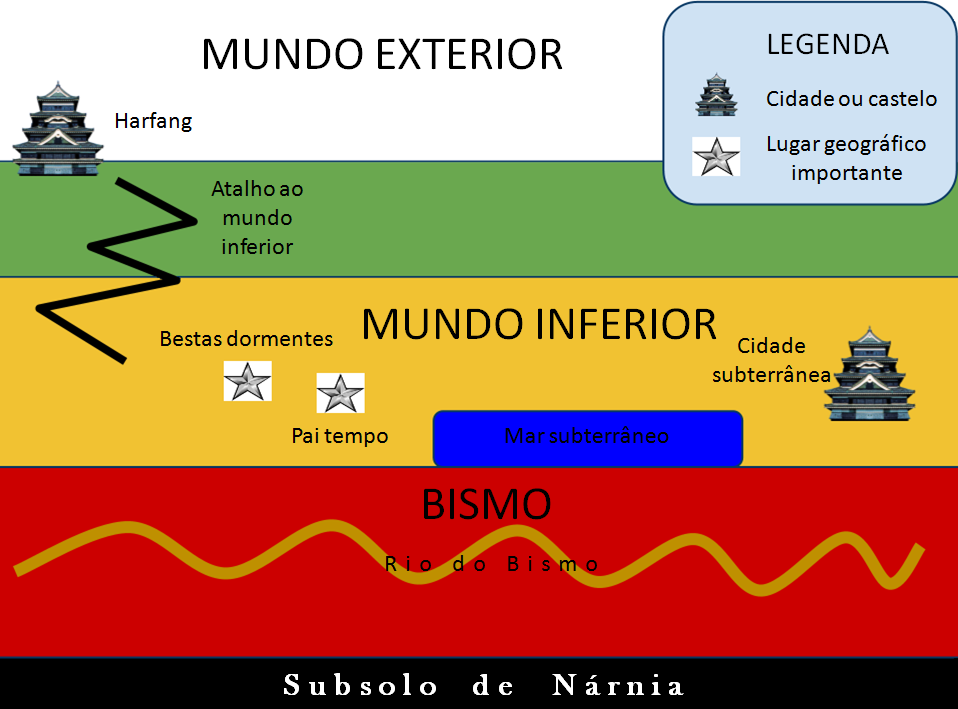 Vertical cross-section of part of Narnia as detailed in the Narnia book The Silver Chair, revealing below-ground realms.